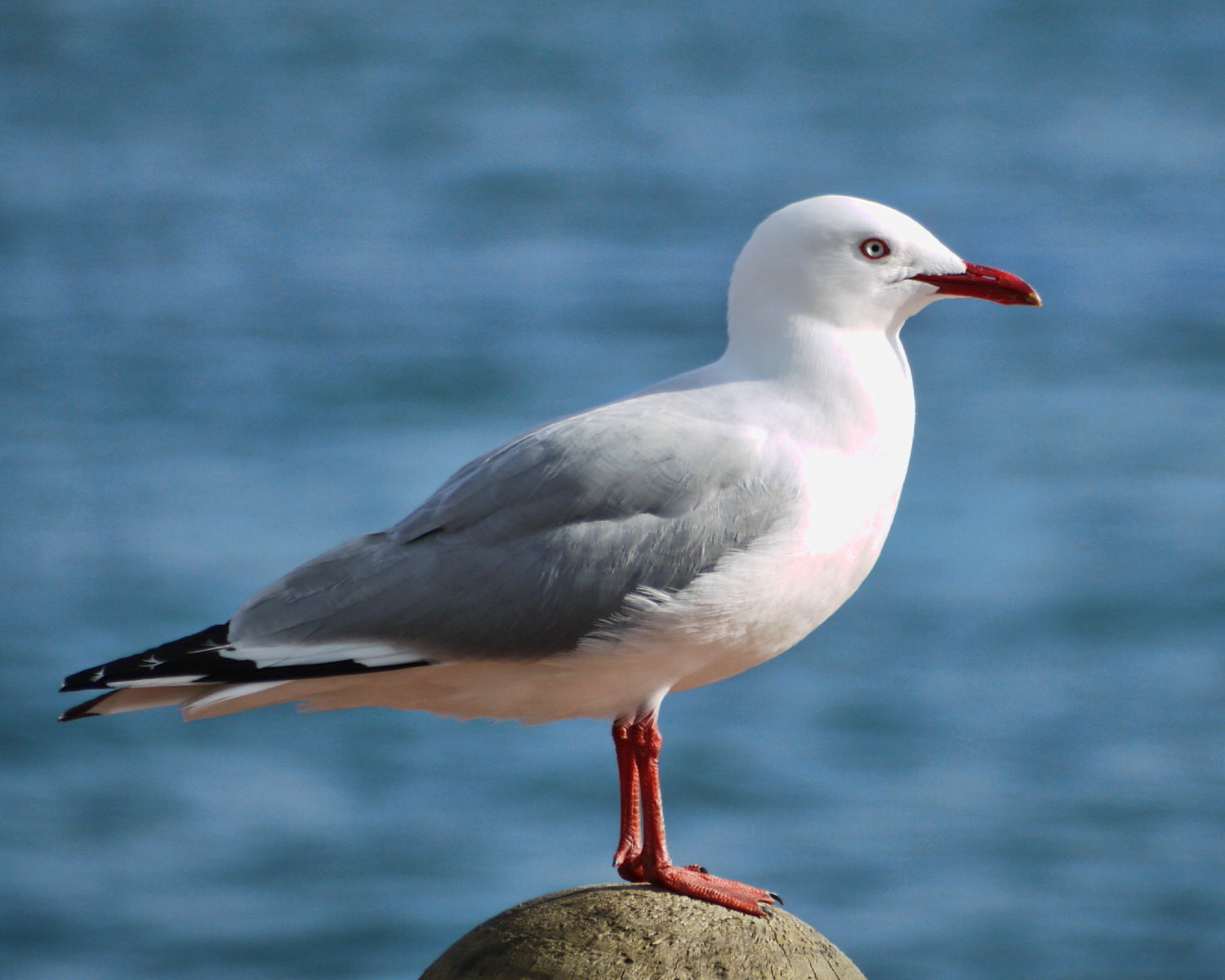 An adult Red-billed Gull in Marlborough, New Zealand.